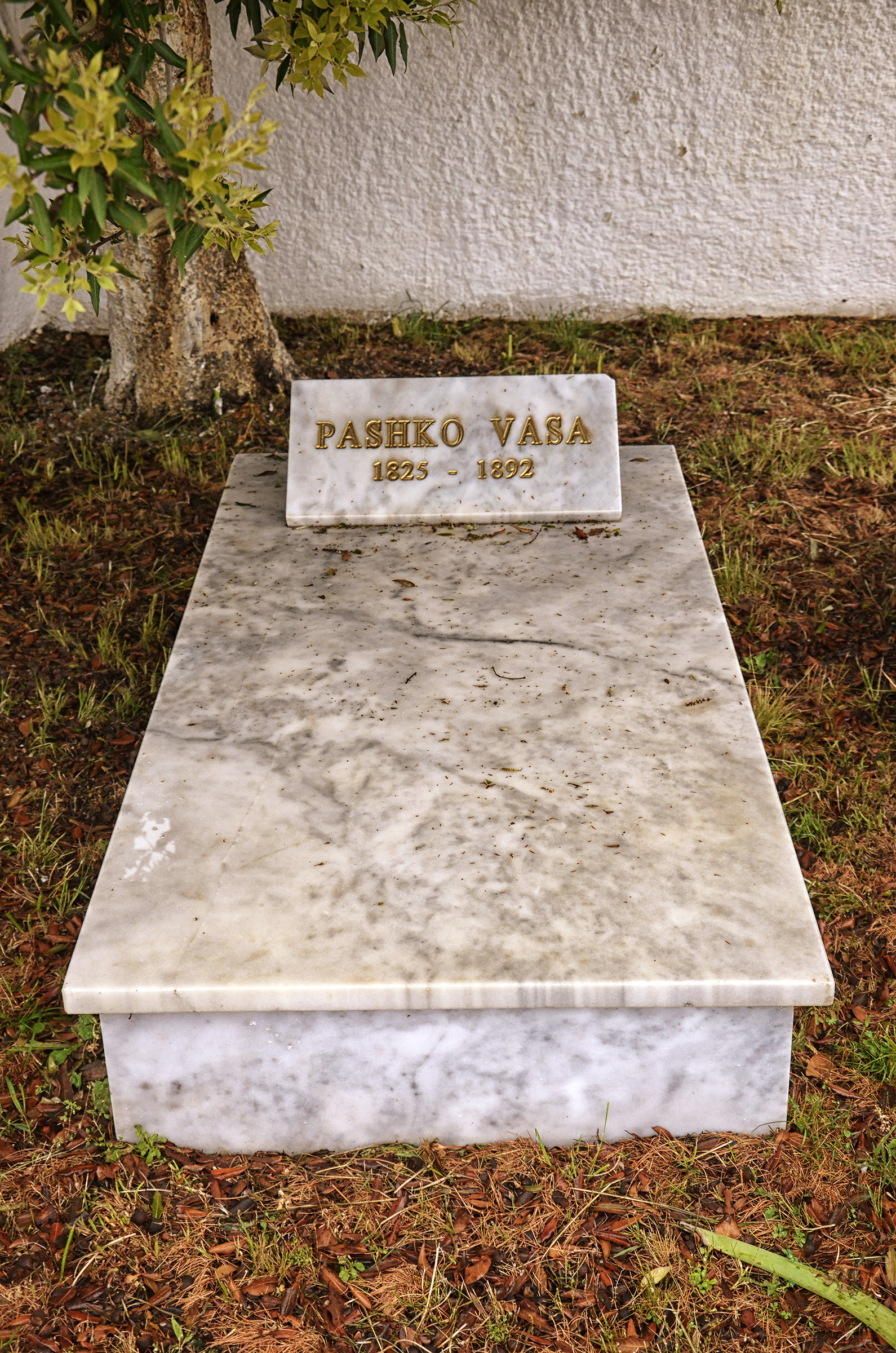 Grave of Pashko Vasa in the Martyrs' Cemetery near Shkodër